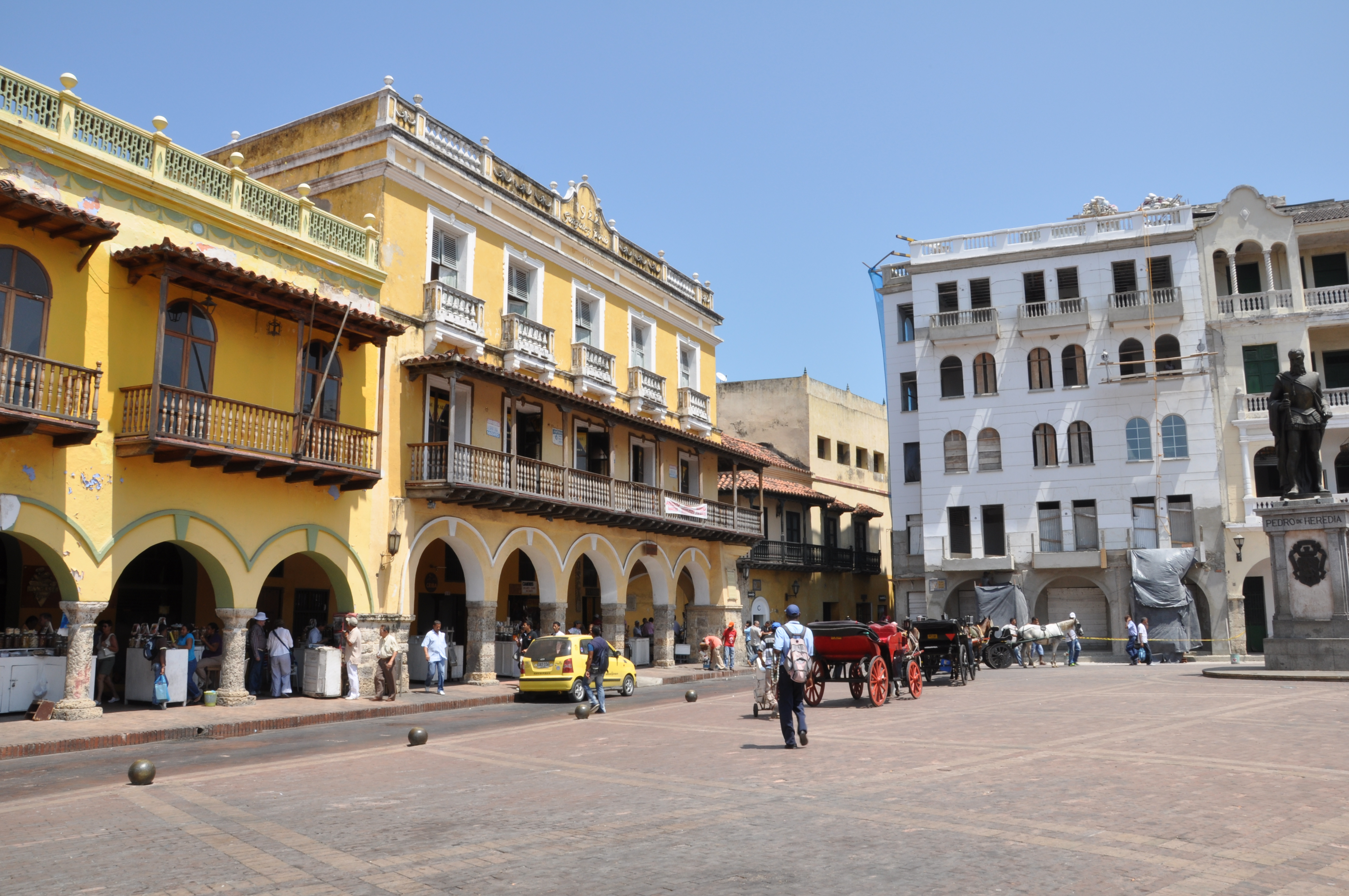 Plaza de los Coches, Cartagena, Colombia. ONE of the WORLD'S 5 MOST ROMANTIC PLACES ACCORDING to LONELY PLANET